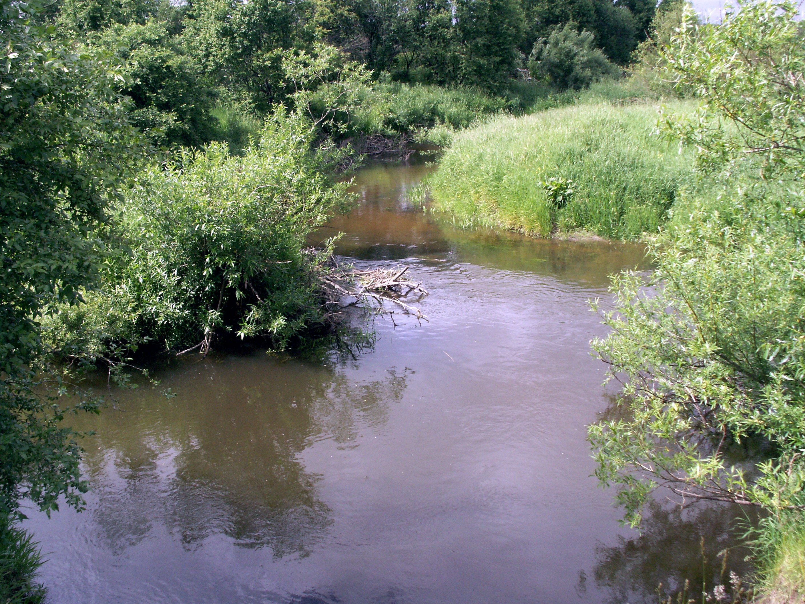 Akmena river near Valėnai, Kretinga district, Lithuania